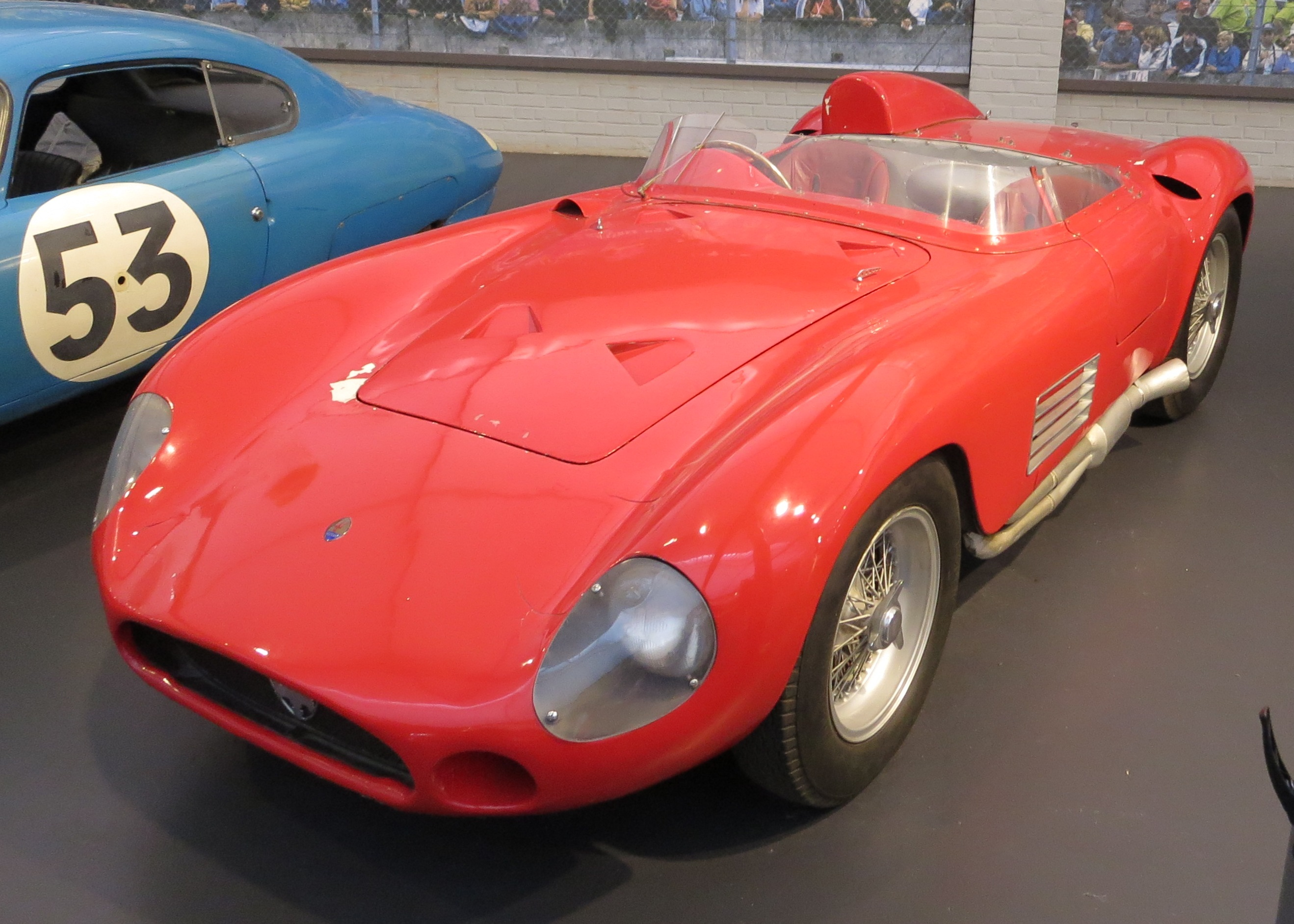 Maserati 300S 2-seater sport